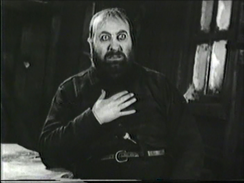 Mack Swain from "The Gold Rush".